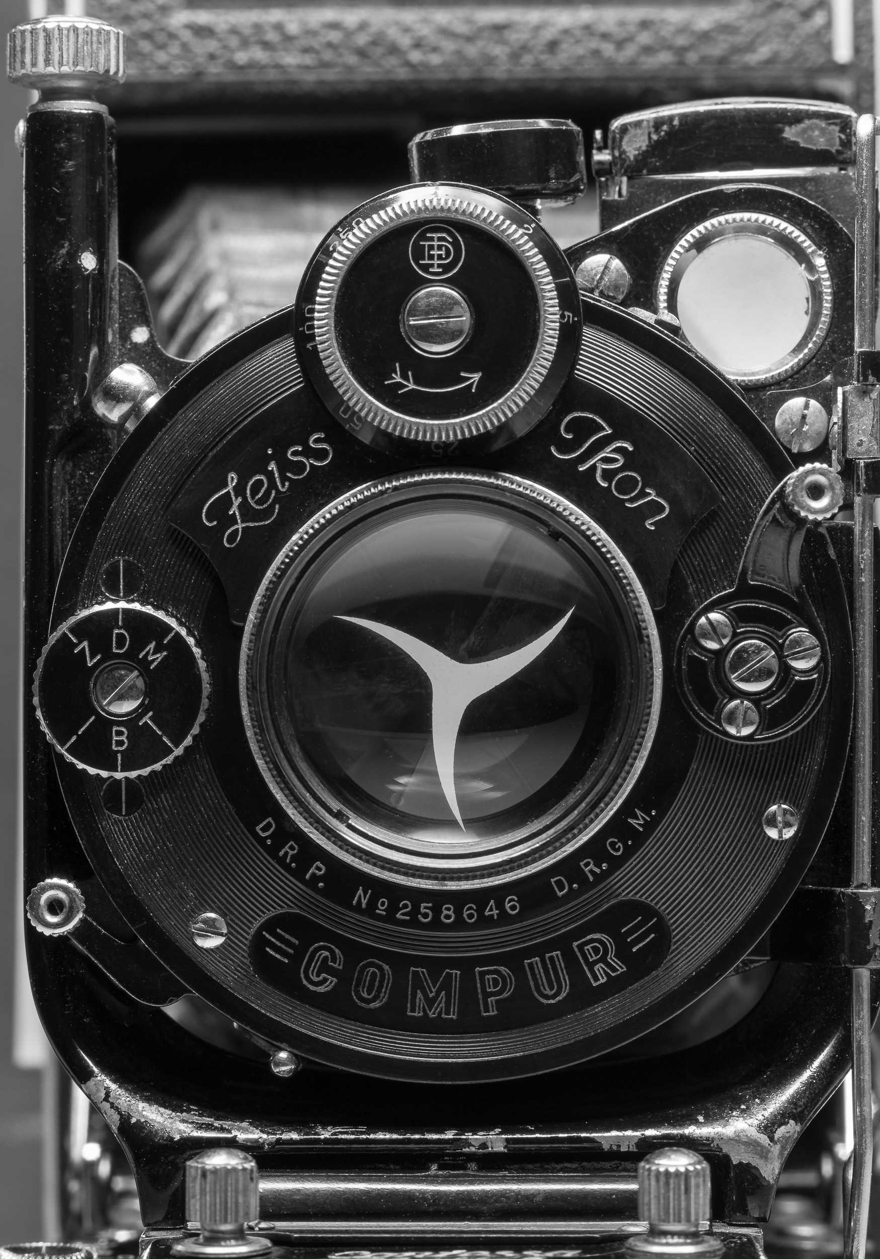 Zeiss Ikon Contessa-Nettel Cocarette I No. 211 U. Folding camera with Tessar lens and Compur central shutter